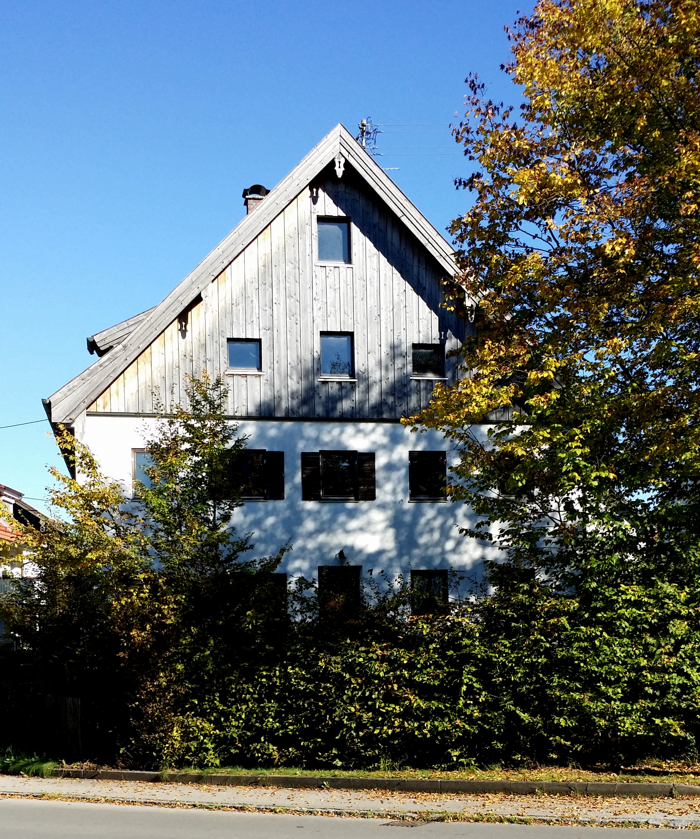 formar parisher's house